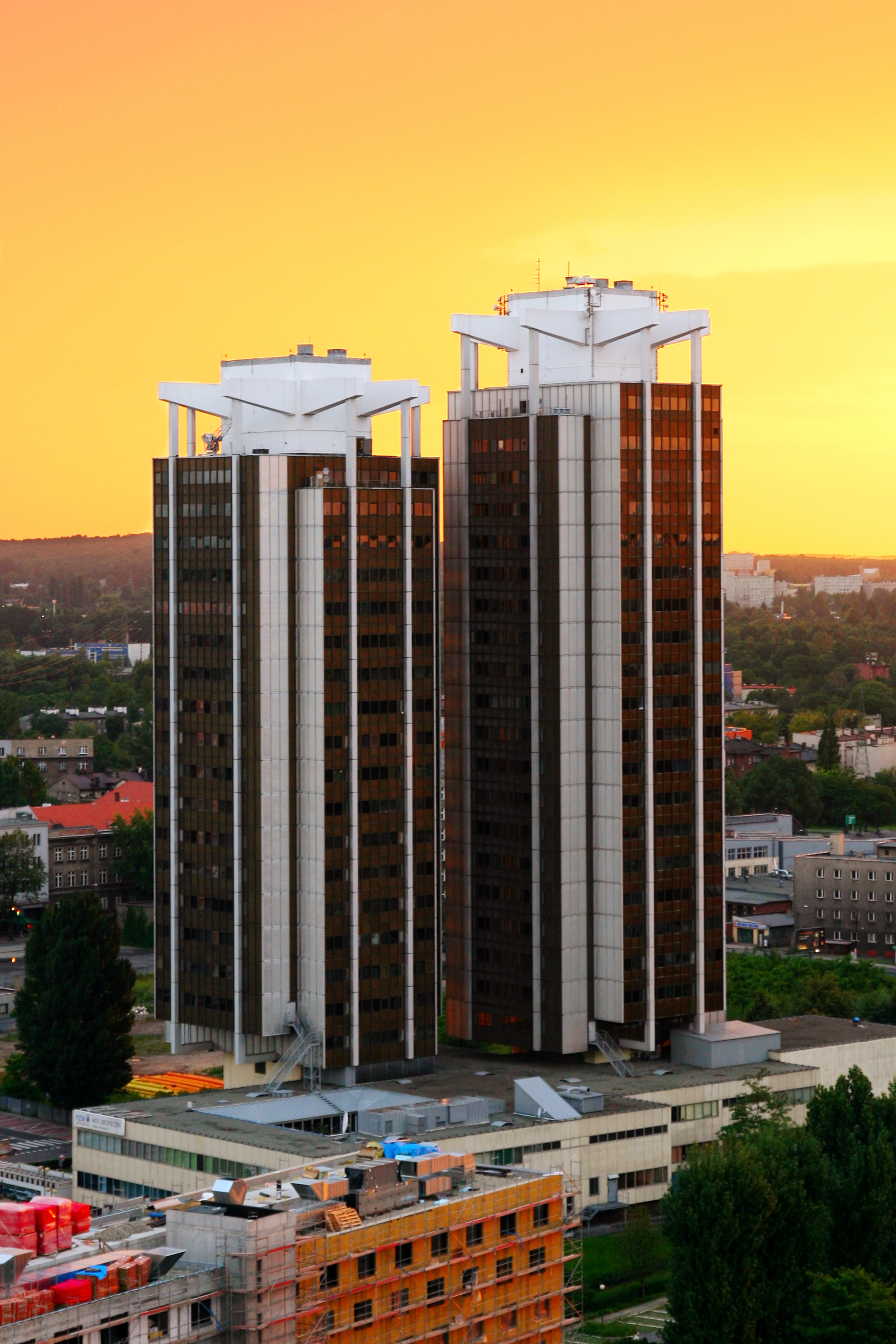 Stalexport Skyscrapers in Katowice (Silesia).